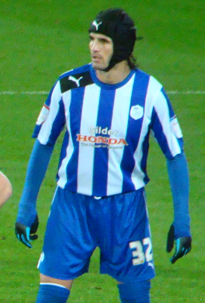 Miguel Llera. Image cropped from original at flickr.